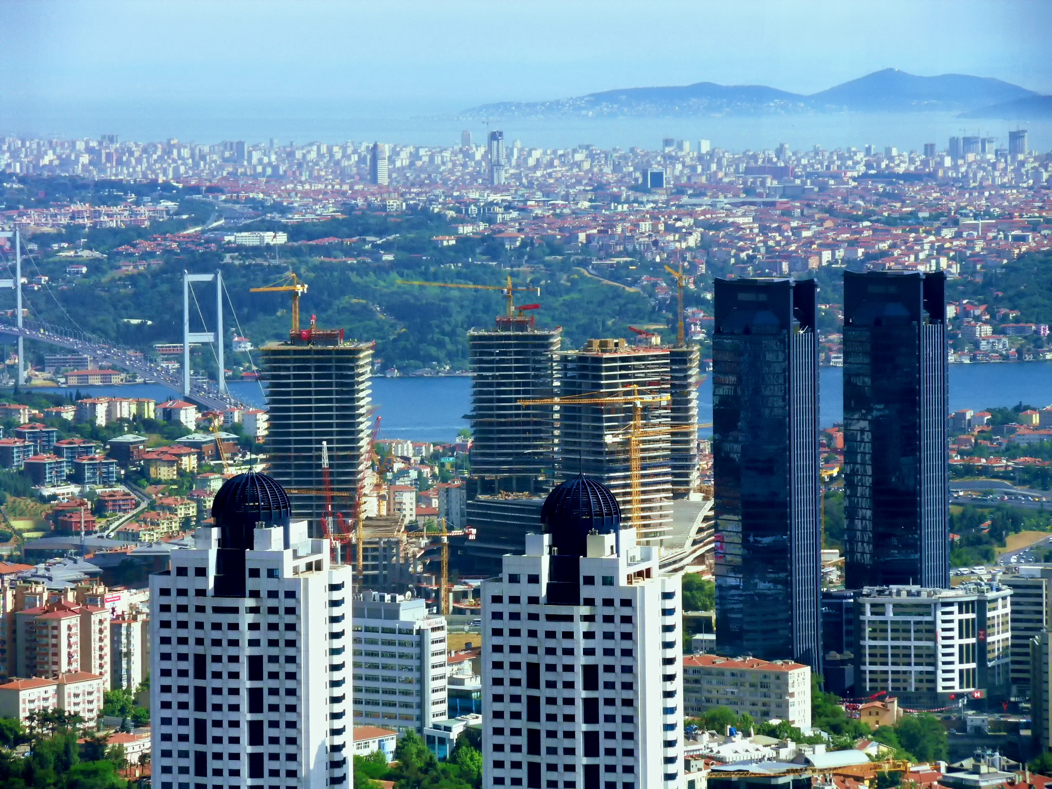 Levent (2011)